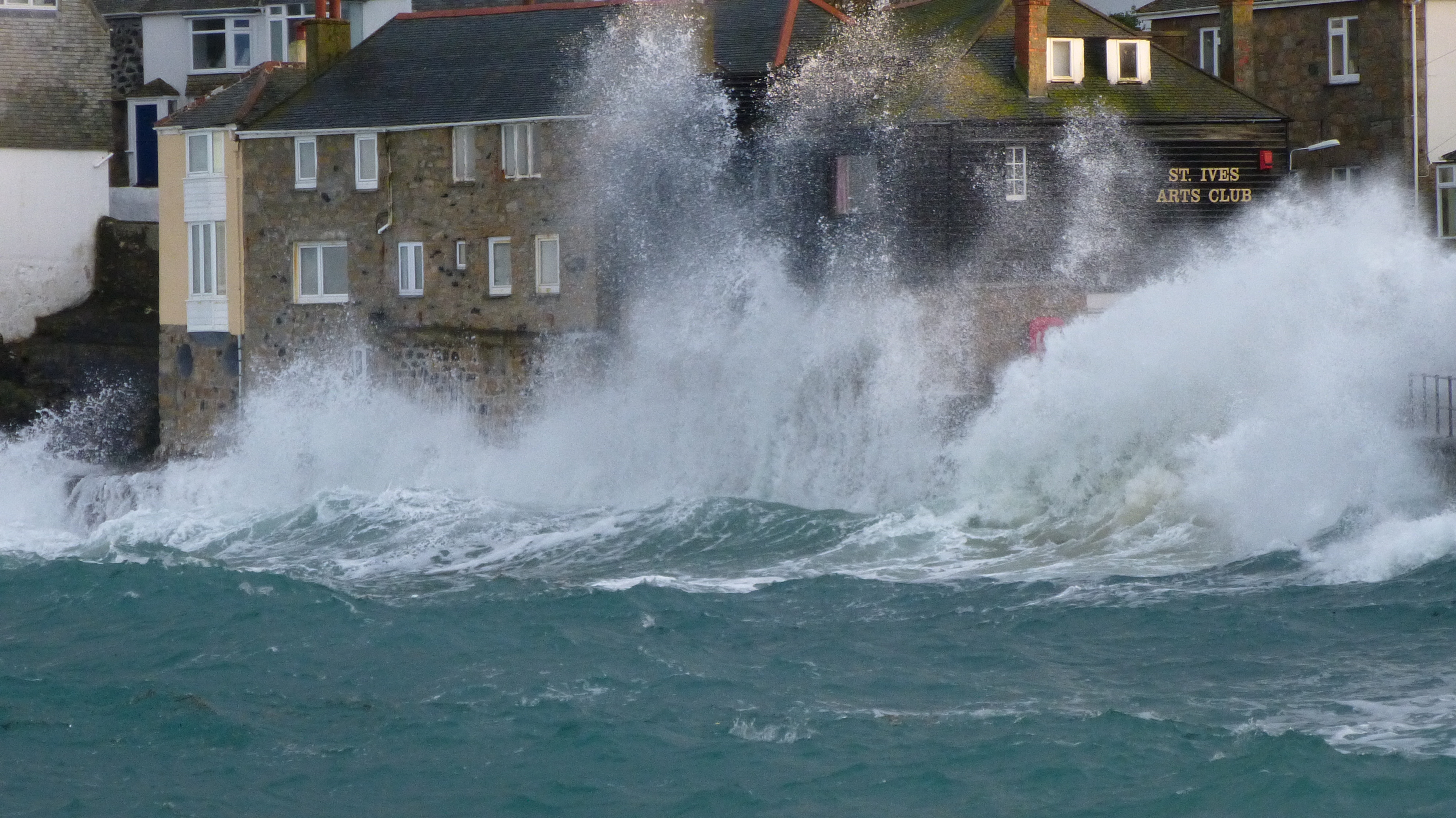 Arts Club. ~ seaspray.